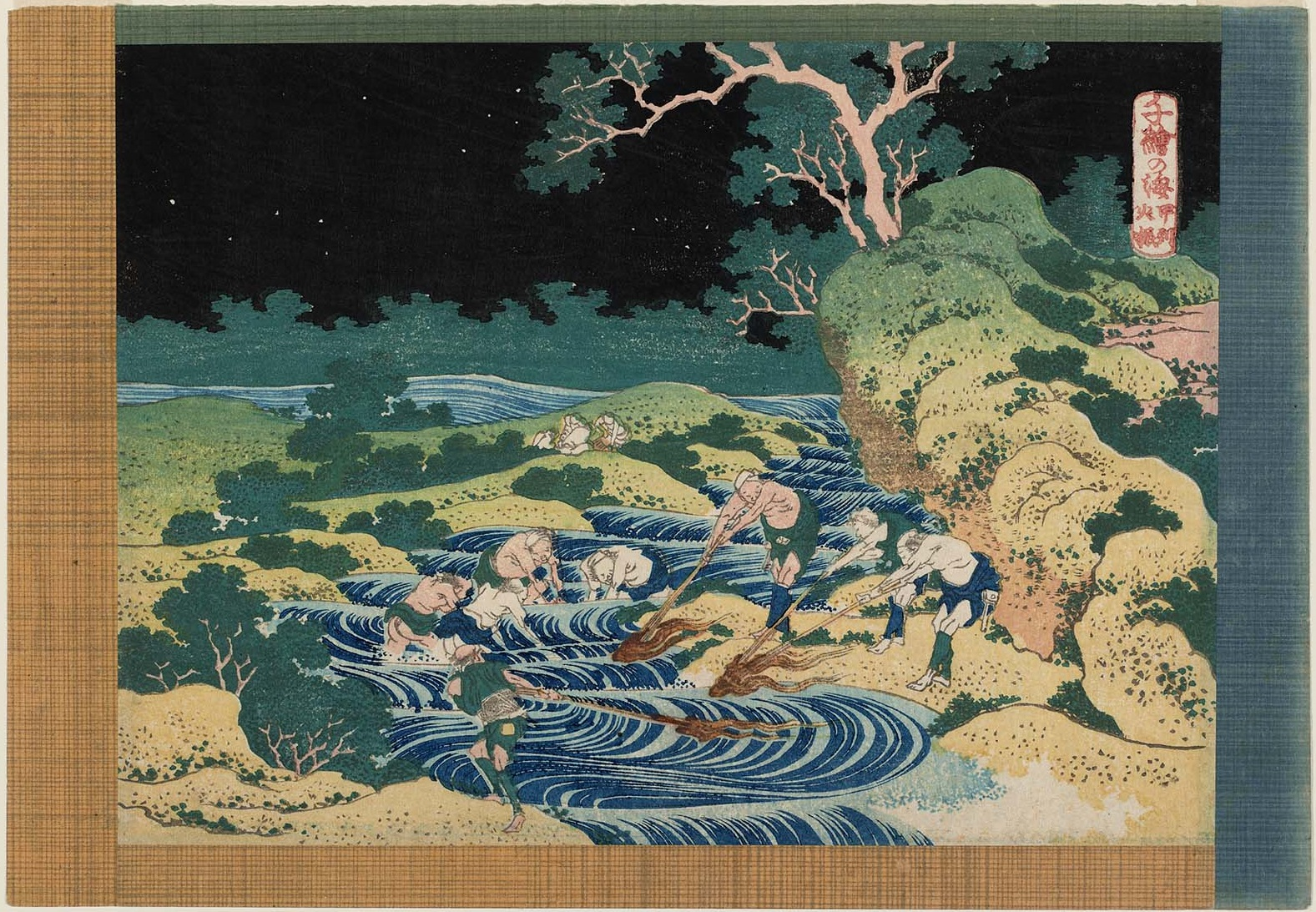 Part of the series Oceans of Wisdom